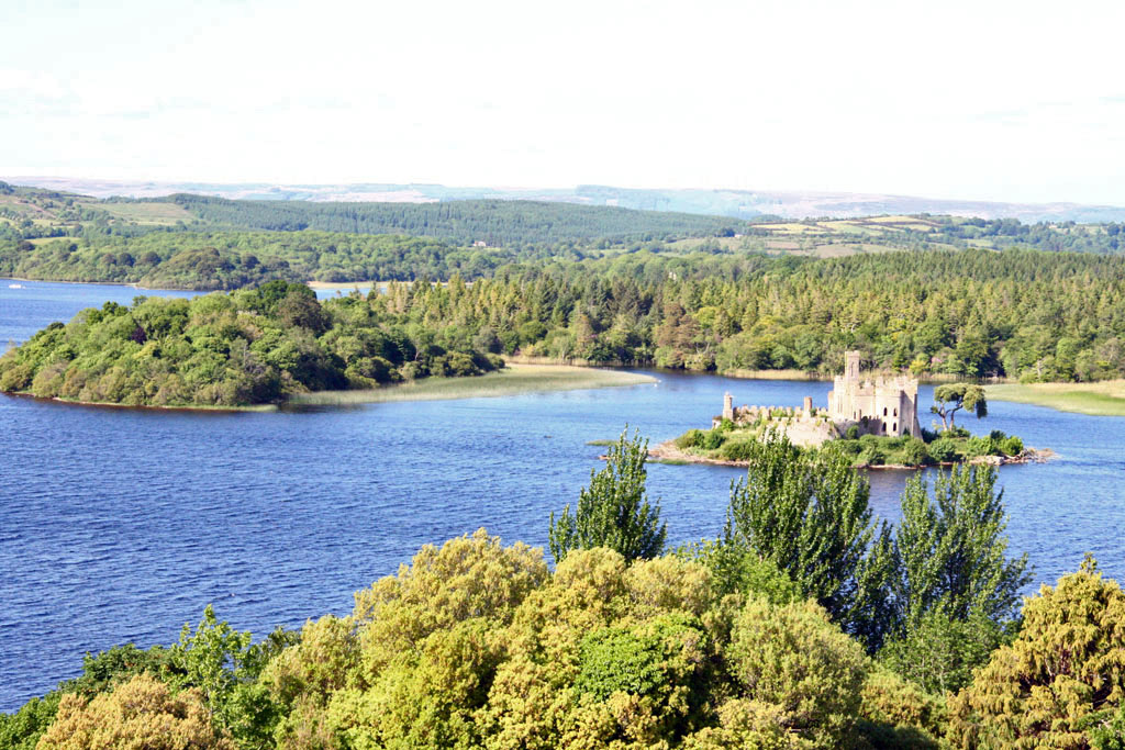 Lough Key Forest Park 2010 052